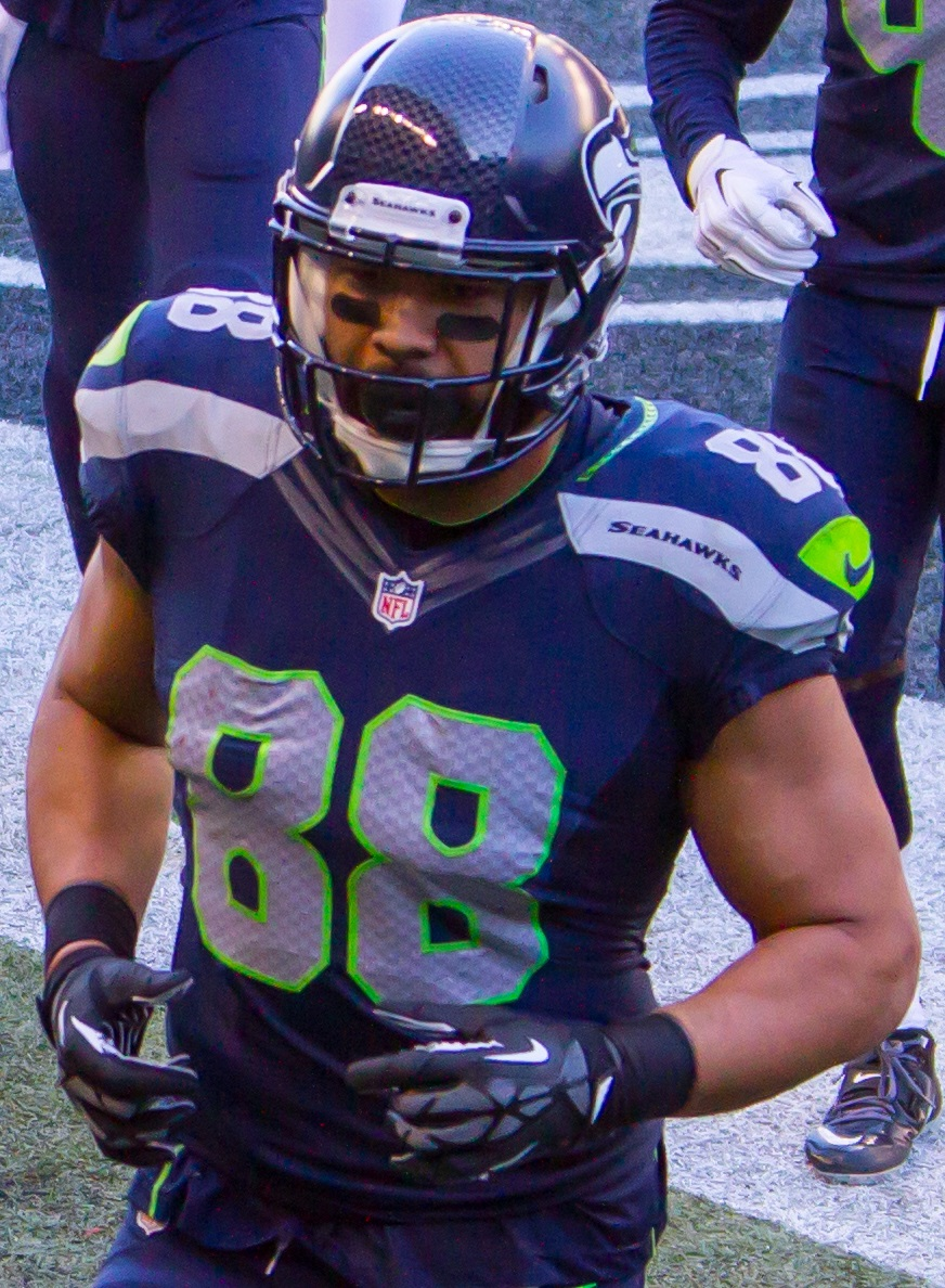 49ers at Seahawks 2014